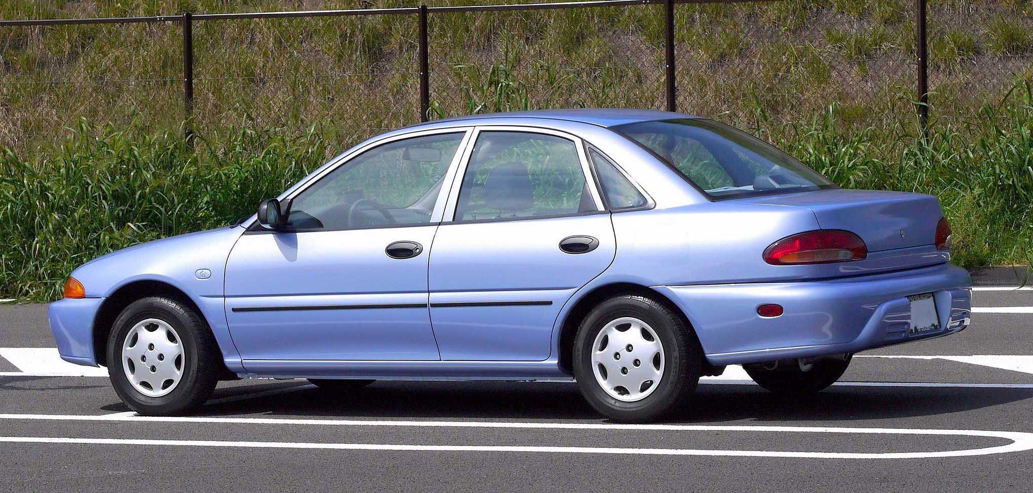 1993 Chrysler Eagle Summit 2nd Gen soled in U.S.